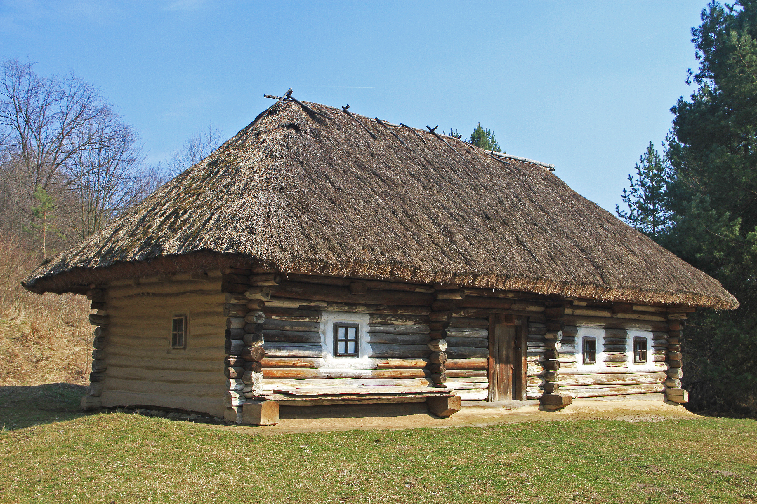 House from Korytne village, Chernivtsi region (19th century). Houses from Bukovina region. Museum of Ukrainian Folk Architecture and Ethnography in Pyrohiv (near Kiev, Ukraine)